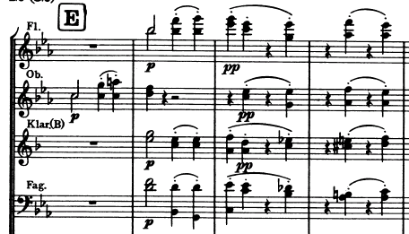 J. Brahms, Schicksalslied, Opus 54. Orchestra Excerpt 2